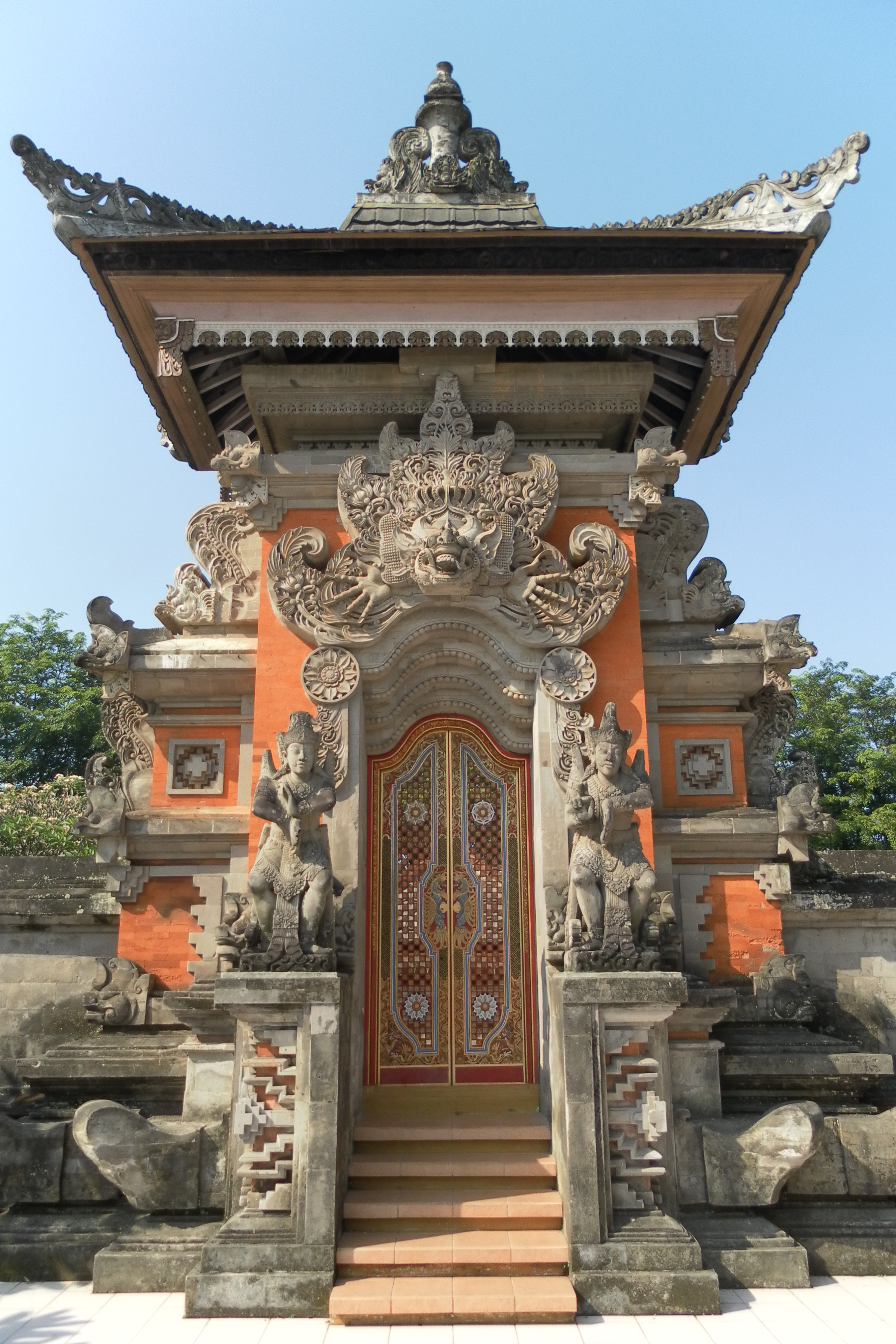 Kori Agung (in the roofed Paduraksa architectural style), a monumental gateway leading to the innermost courtyard of a Balinese temple. Visible above the gateway is the image of the Hindu god Bhoma, the monster-like son of Durga and Shiva, whose fearful yet benevolent nature is intended to drive away nearby malevolent influences. Photographed at Taman Mini Indonesia Indah in East Jakarta.